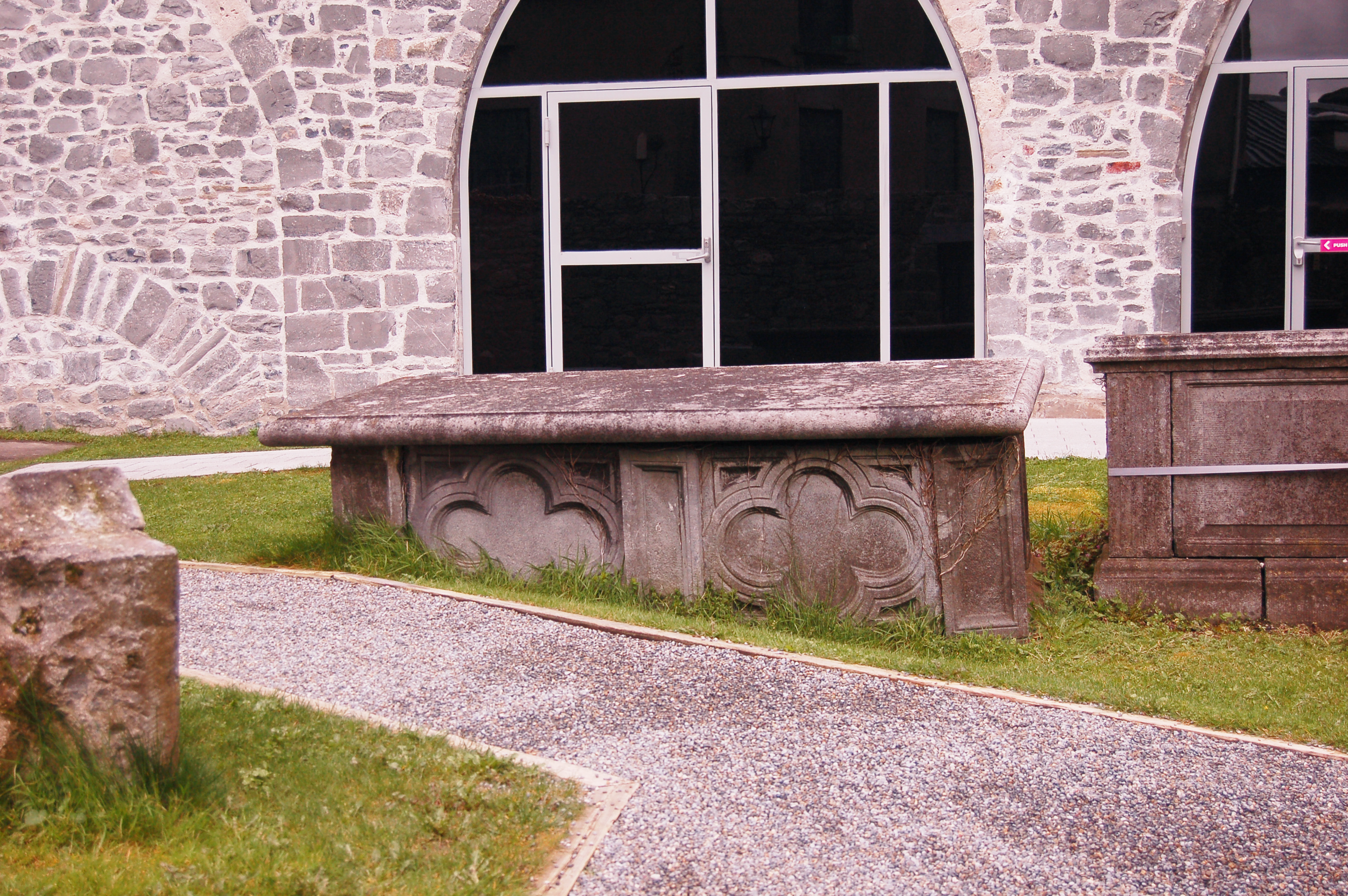 William Robertson's altar tomb, very likely designed by himself, judging by the quatrefoils favoured in his architecture. The inscription is faded, but in 1965, the words "Mayor" were still legible, and his family's gravestones are close by.